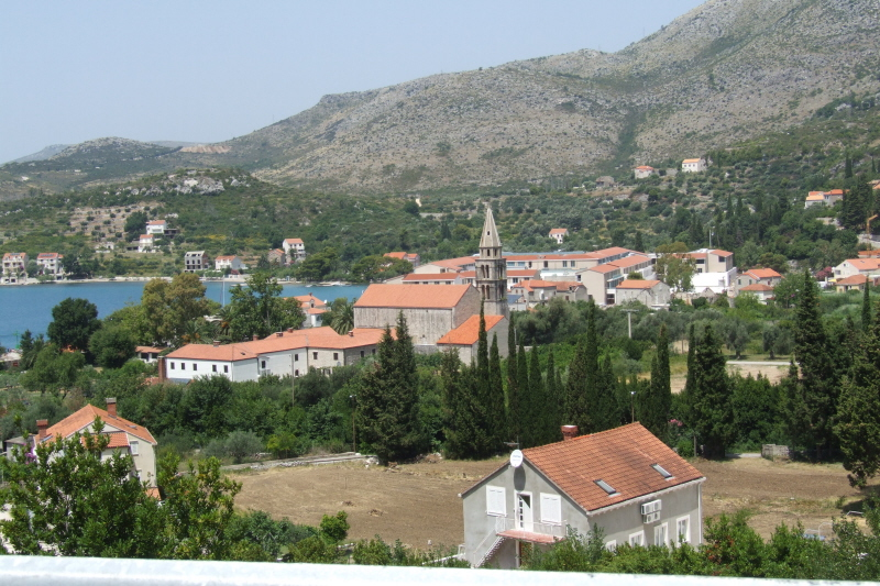 Village Slano in Dalmatia, Croatia.